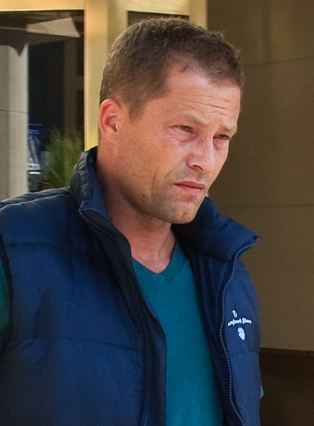 Til Schweiger at the 2009 Toronto International Film Festival.